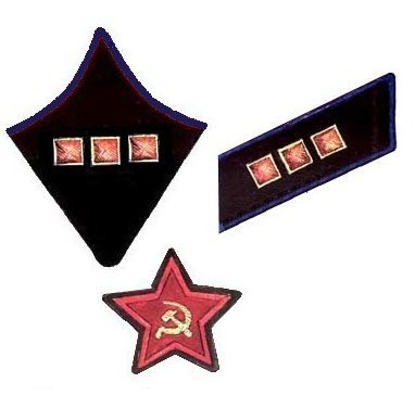 Rank insignia of the Workers' and Peasants' Red Army (WPRA), here "Polit-leader" (equivalent: “1st Lieutenant”, comparable to NATO OF-1a) Army/ technical troops from 1935 to 1942 – collar patch big: overcoat, collar patch small: jacket, sleeve insignia.